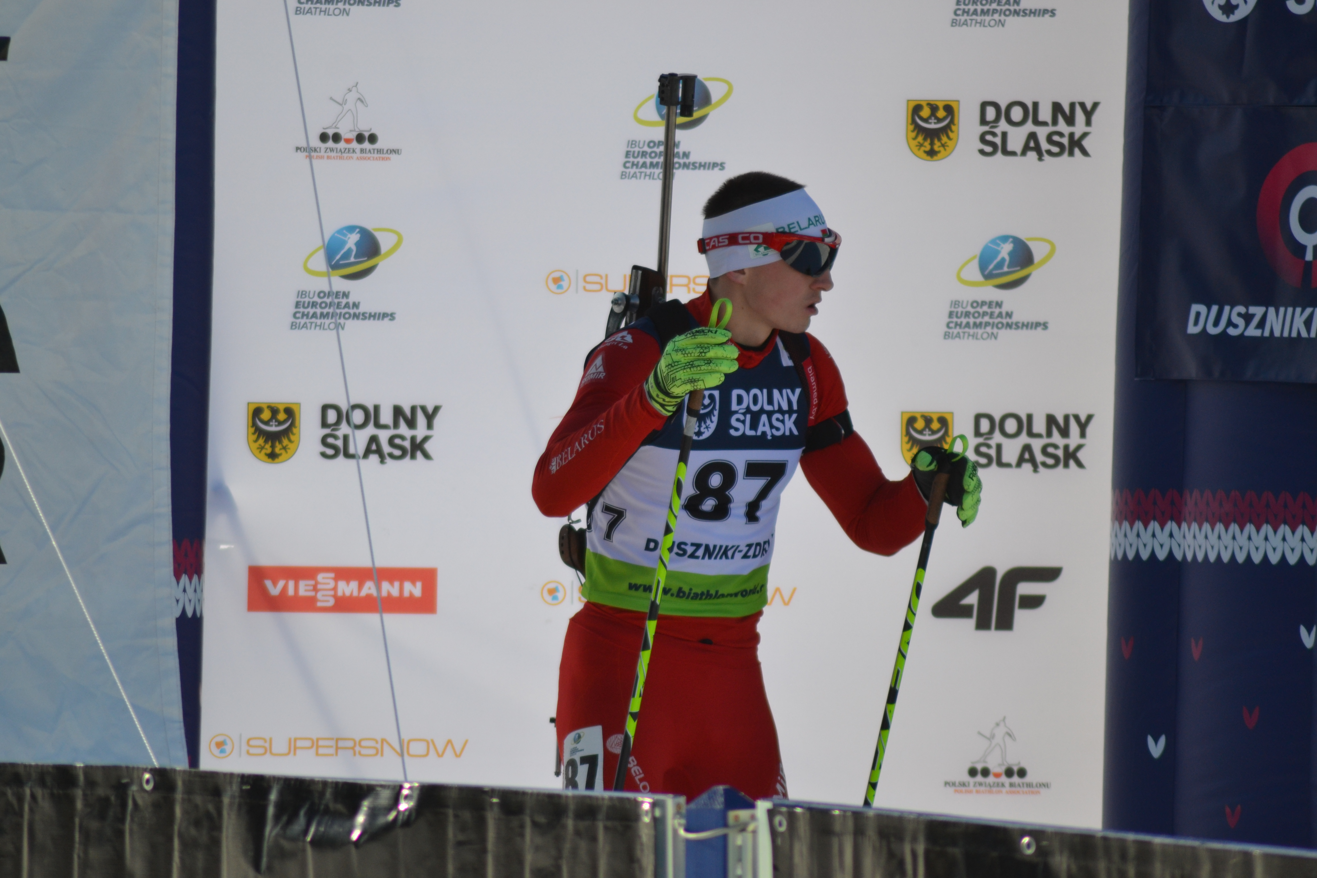 Open European Championships Biathlon 2017, Sprint Men's race, held on January 27th.